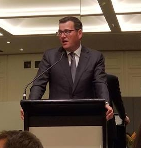 Daniel Andrews, 14 March 2018